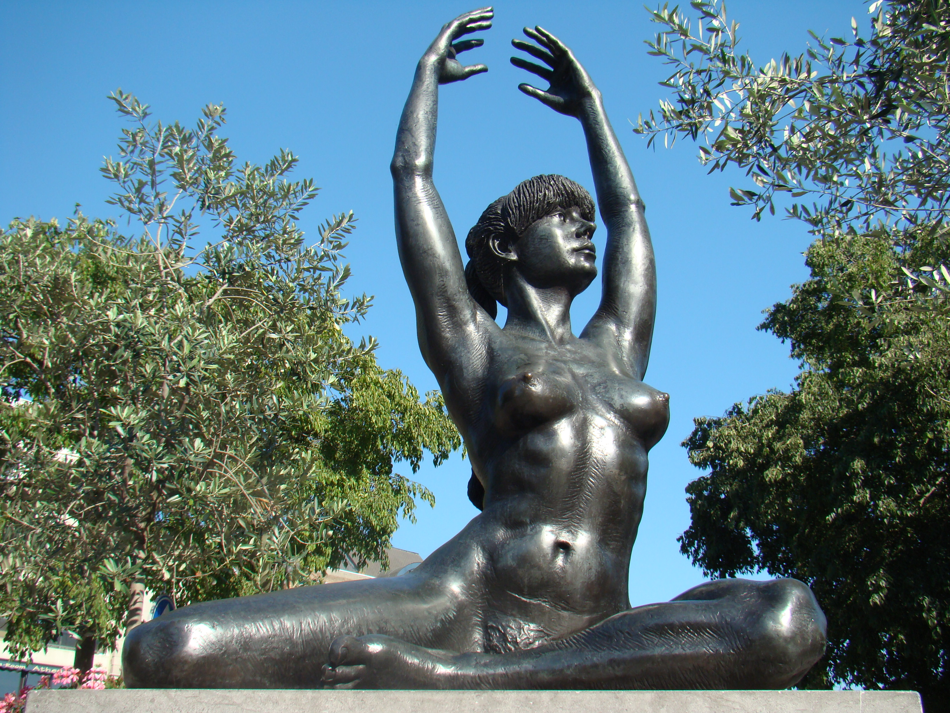 Roeselare (West Flanders, Belgium). Statue Sierlijhkheid (elegance) from Irénée Duriez (B) on the market square of Roeselare